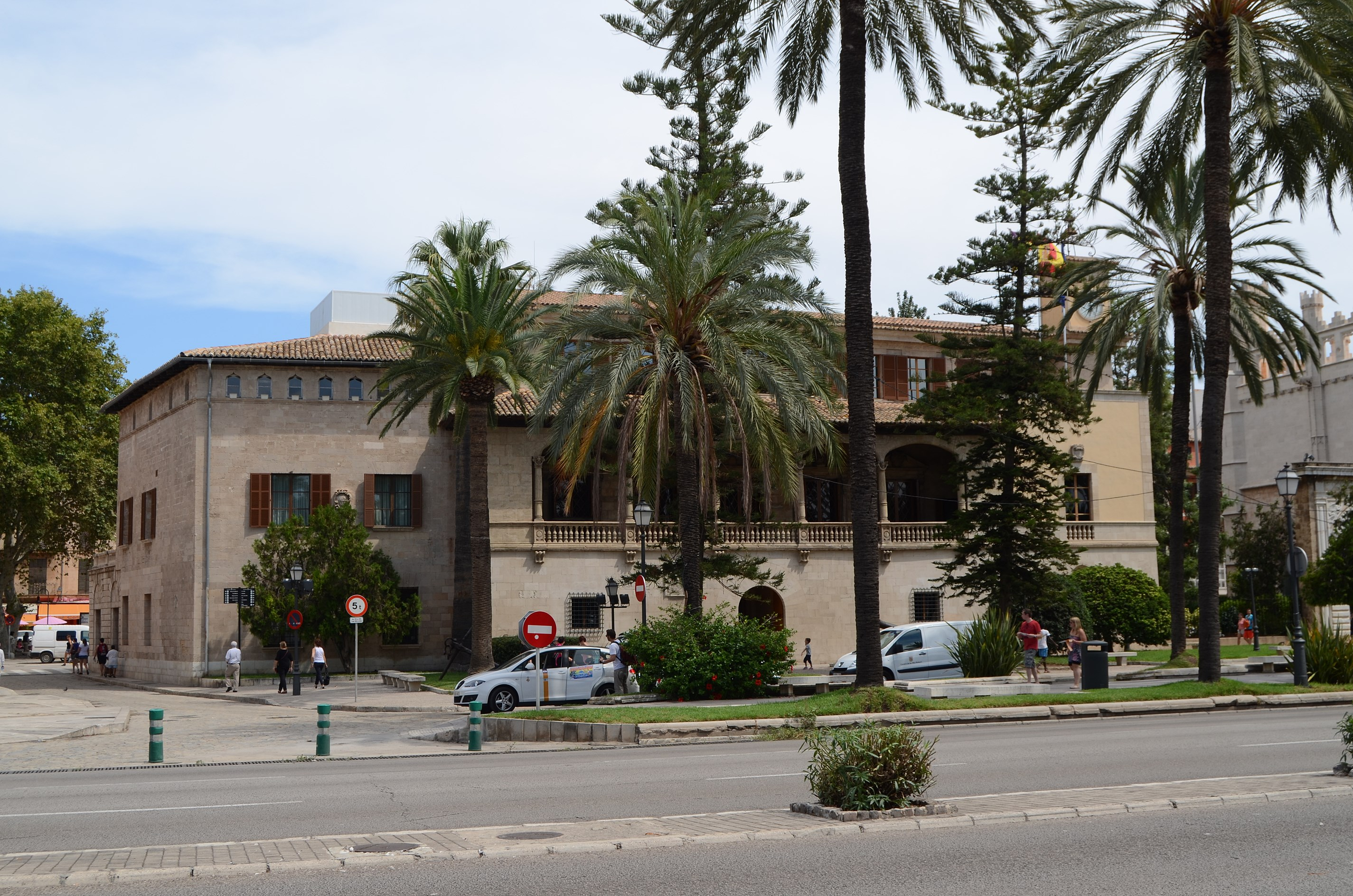 Palma (Majorca, Spain) – Consolat de Mar This photograph was taken with a Nikon D7000